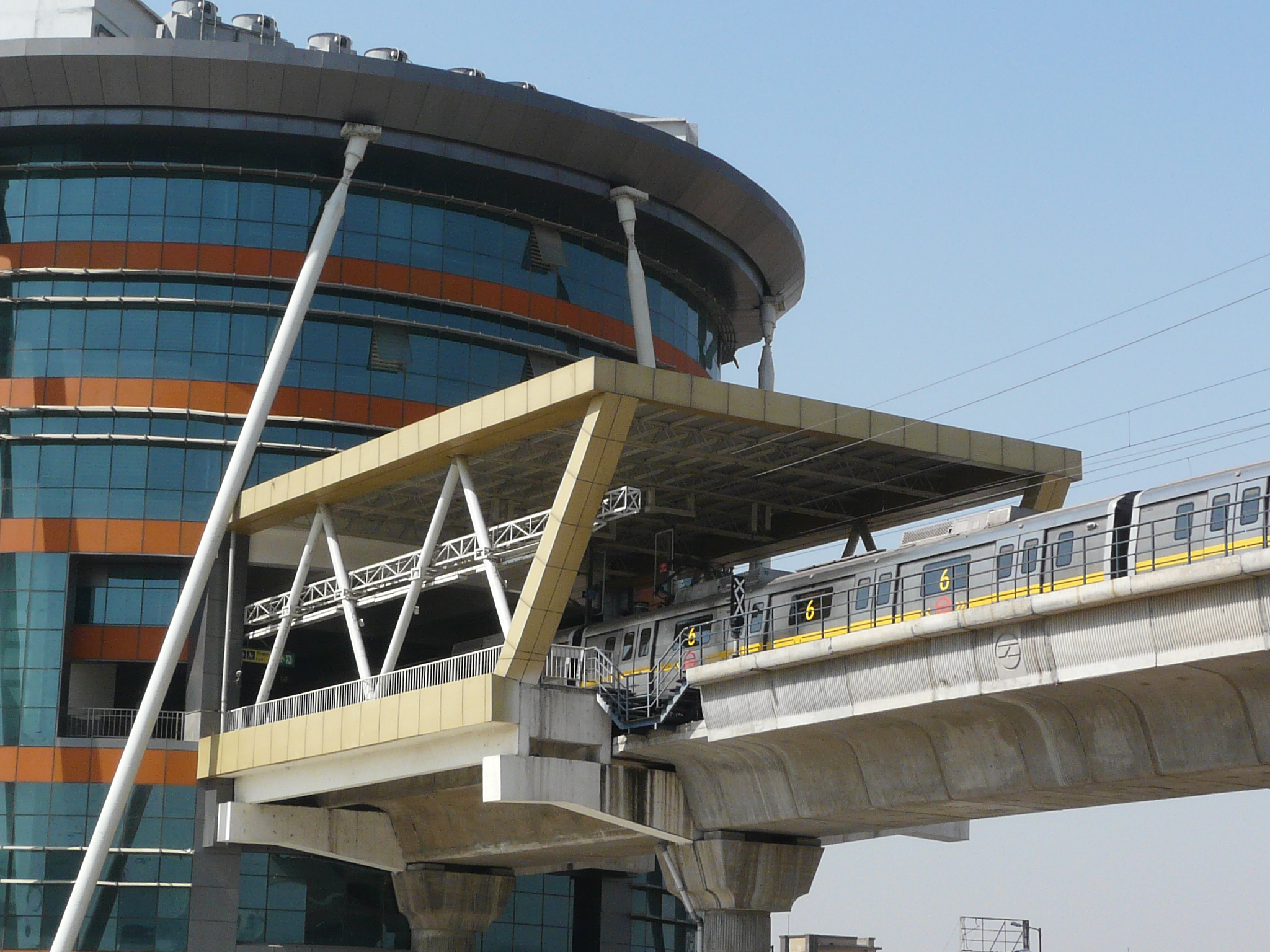 HUDA City Center station, the terminal station on the Yellow Line of Delhi Metro in Gurgaon, Haryana.